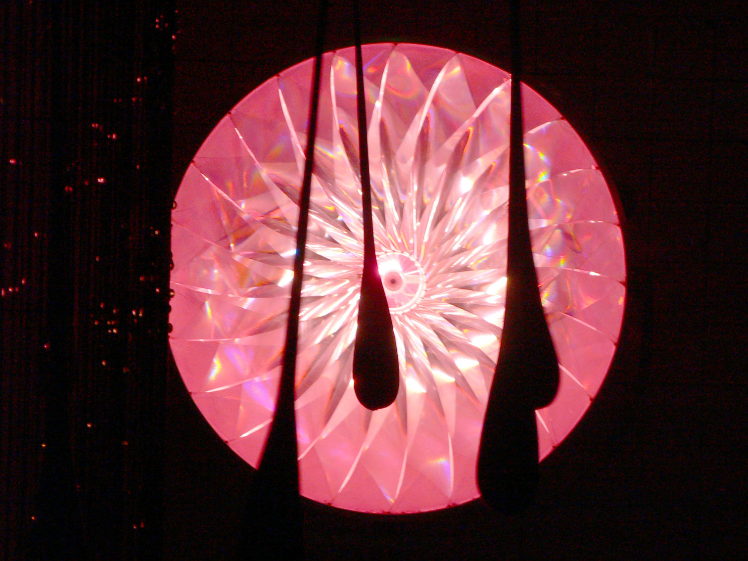 The big red light at one end of Karriere Bar at the Flaesketorvet (meat square?) in Copenhagen. By Olafur Eliasson.